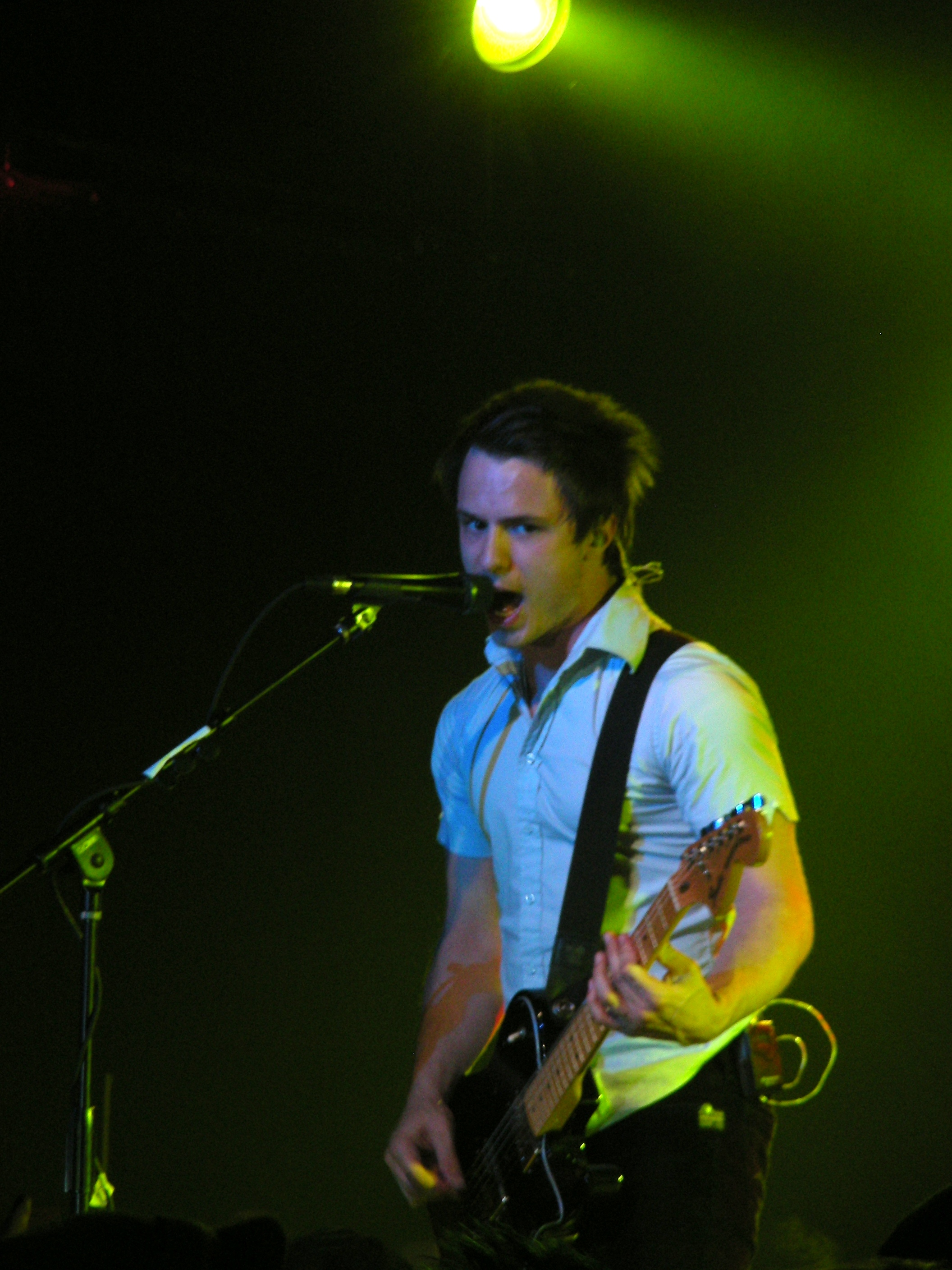 Josh Farro in 2008